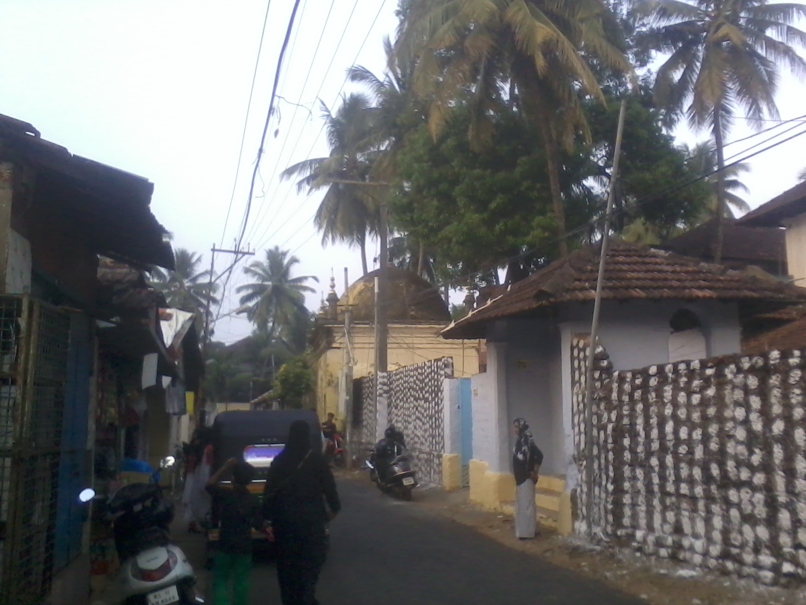 Hyderoos Maqam Street view